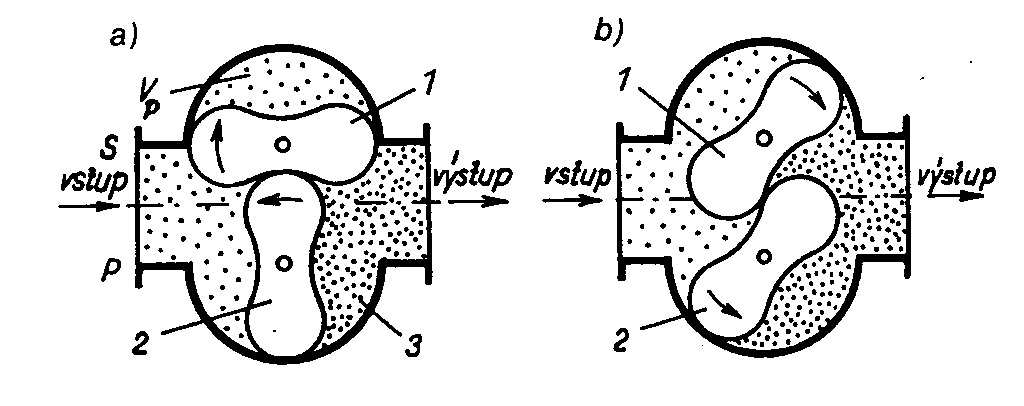 Root's pump